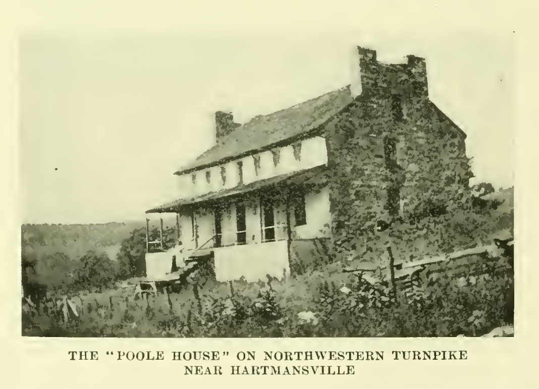 Photograph of Poole House along Northwestern Turnpike near Hartmansville, WV, that appeared in Baltimore & Ohio Railroad Company's Book of the Royal Blue, October 1908, Vol. 12 No. 01, Page 10